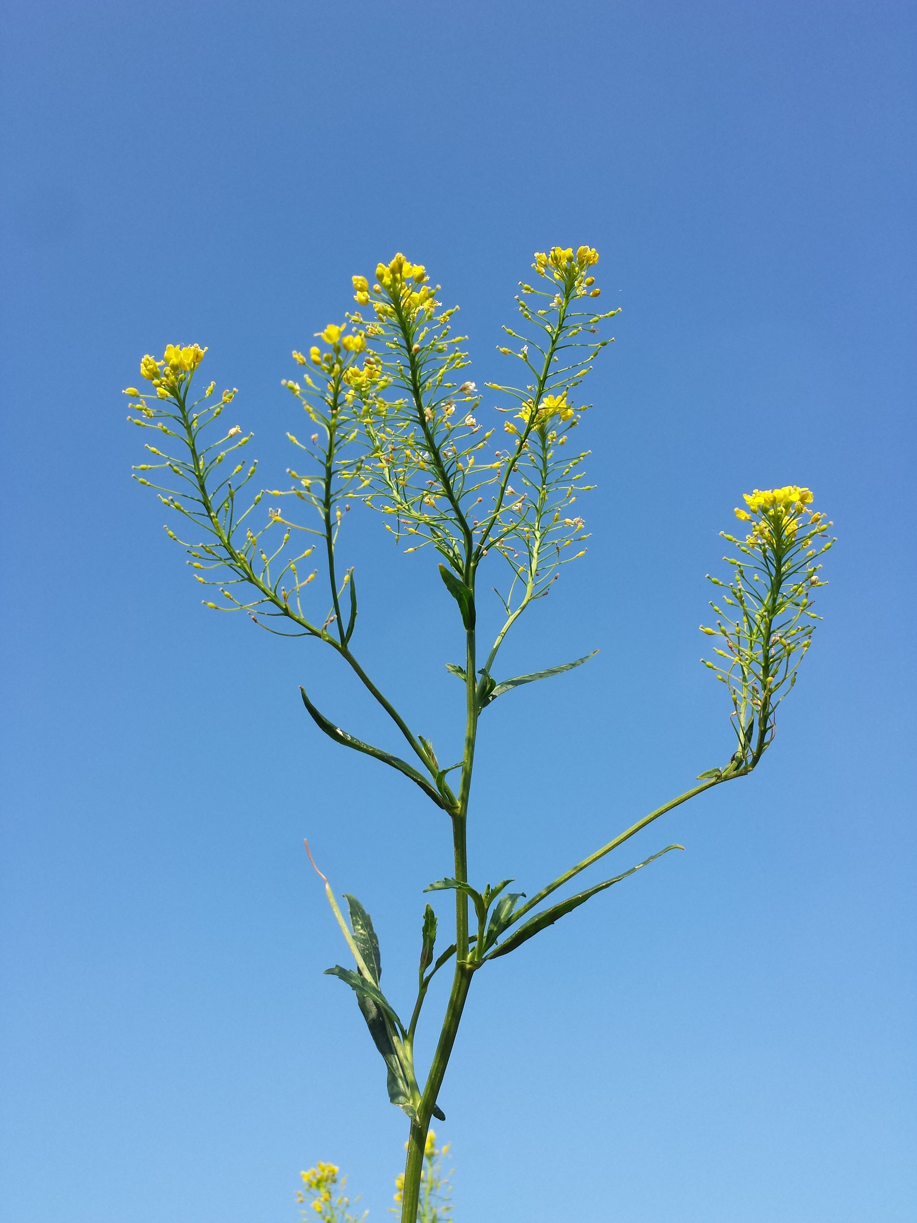 Inflorescence Taxonym: Rorippa austriaca ss Fischer et al. EfÖLS 2008 ISBN 978-3-85474-187-9 Location: Donaupark, Vienna-Donaustadt - ca. 160 m a.s.l. Habitat: ruderal, dry meadows